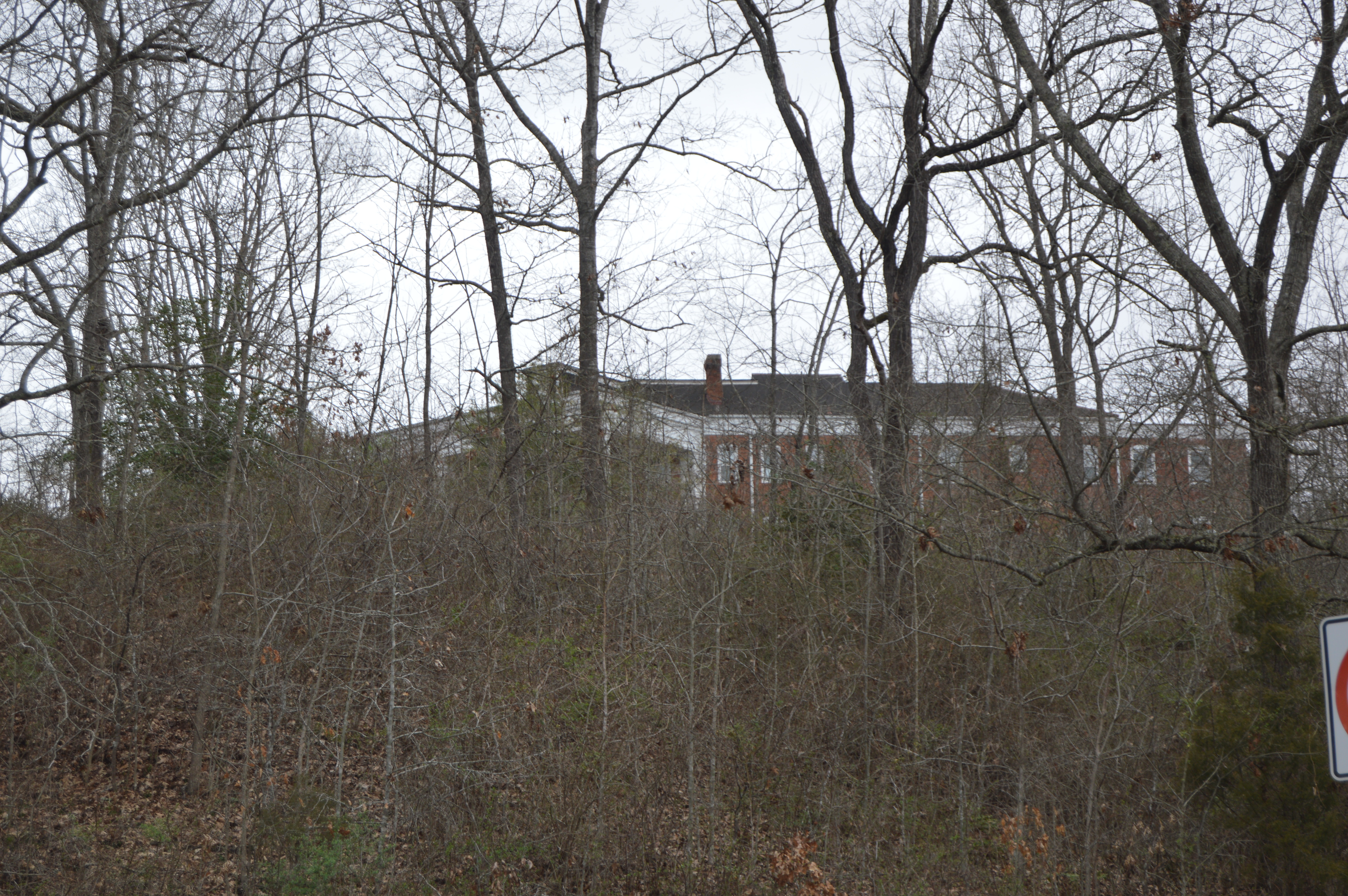 Through-the-trees view of the Pence Springs Hotel, located along West Virginia Routes 3/12 southwest of Alderson in Summers County, West Virginia, United States. Built in 1918, it is listed on the National Register of Historic Places.